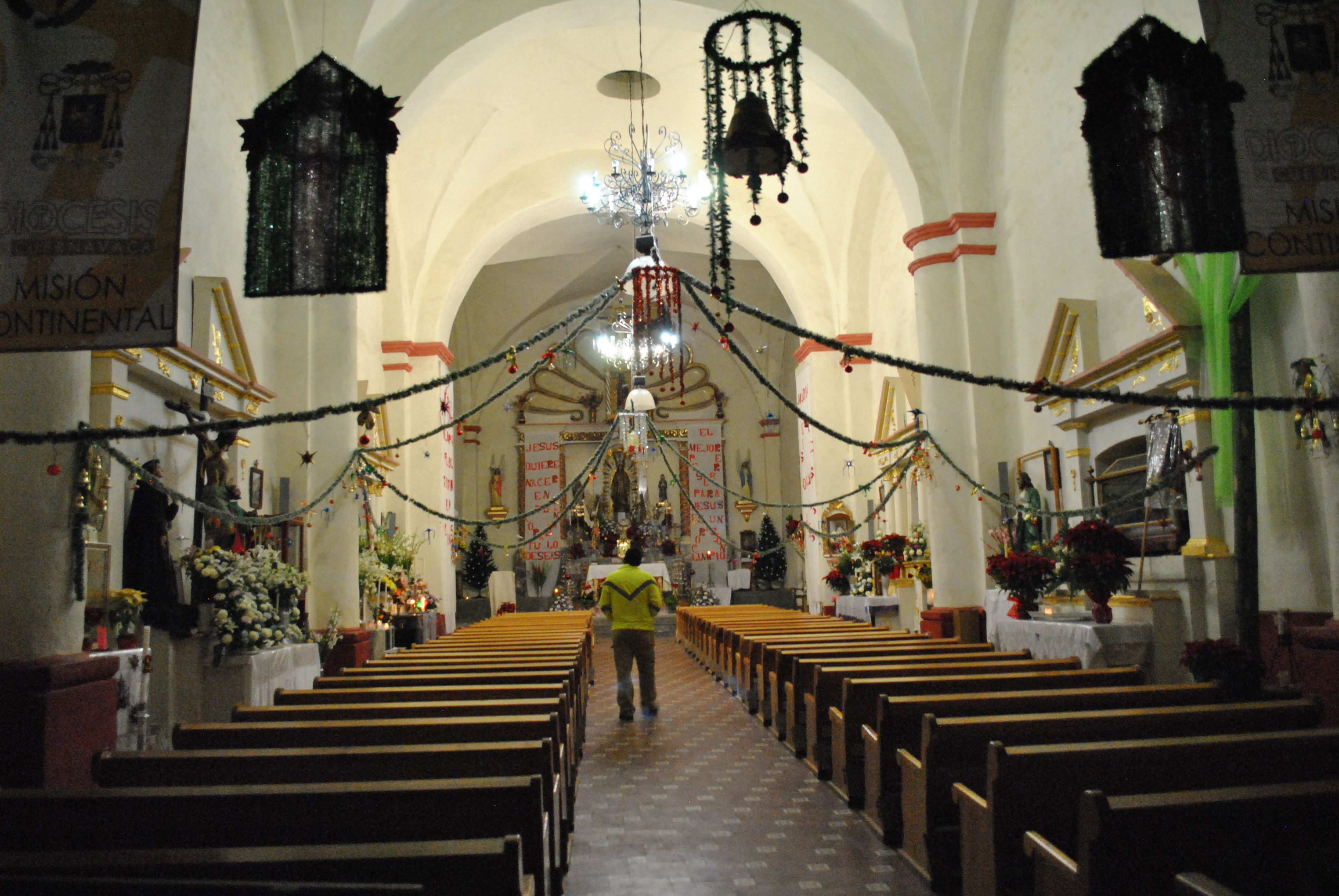 Former convent of San Juan Bautista of Tetela del Volcan, Morelos, Mexico. Interior of the Temple.